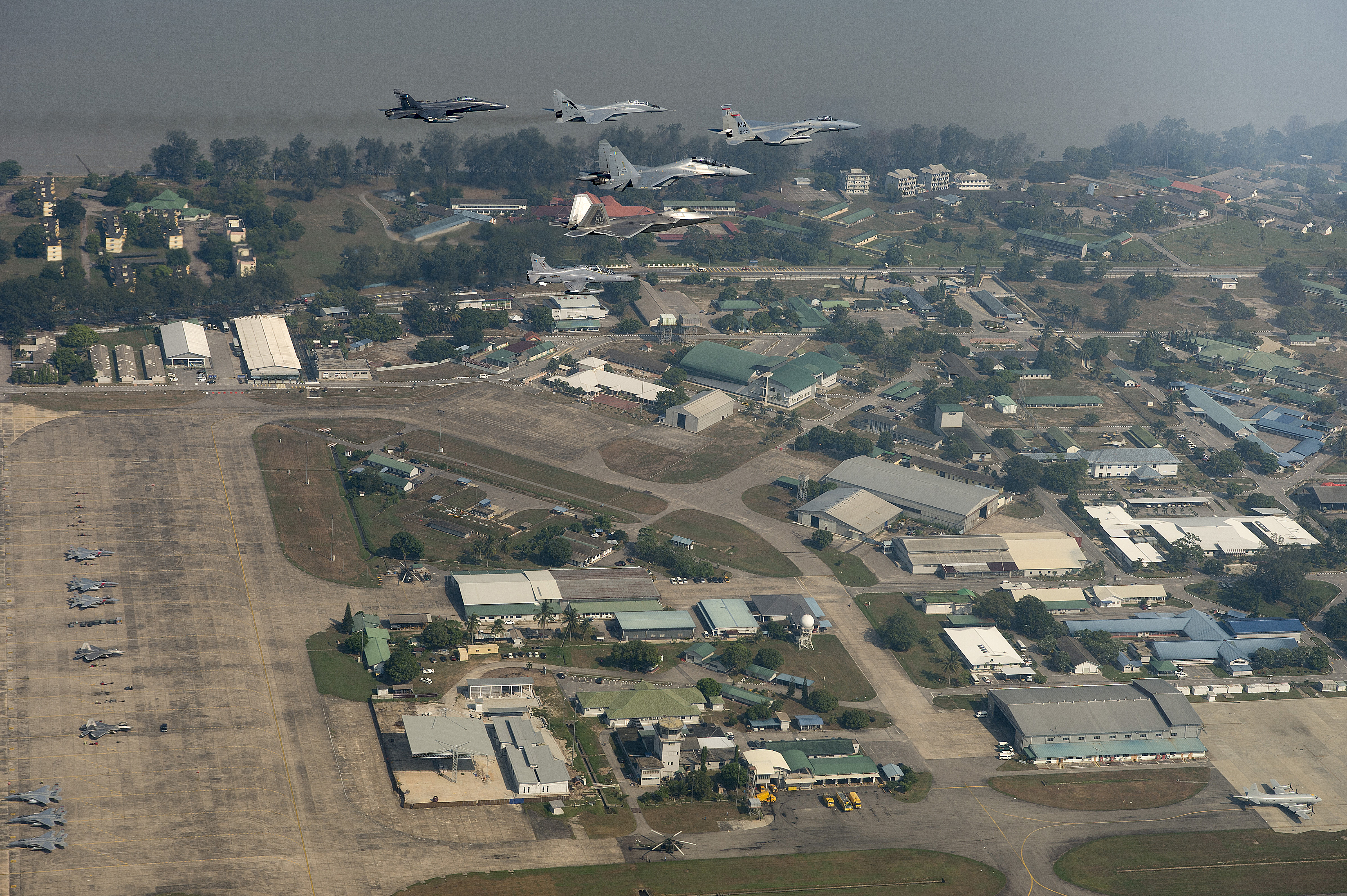 A formation of U.S. Air Force and Royal Malaysian Air Force aircraft including an F-15 Eagle from the 131st Fighter Squadron, 104th Fighter Wing, Barnes Air National Guard Base, Mass., an RMAF SU-30MKM Flanker, a USAF F-22 Raptor from the 154th Wing, Joint Base Pearl Harbor-Hickam, Hawaii, an RMAF MIG-29N Fulcrum, an BAE Hawk, and an RMAF F/A-18 Hornet fly over RMAF P.U. Butterworth, Malaysia, during Cope Taufan 14, June 18, 2014. Cope Taufan is a biennial large force employment exercise taking place June 9 to 20 designed to improve U.S. and Malaysian combined readiness. (U.S. Air Force photo by Tech. Sgt. Jason Robertson/Released)